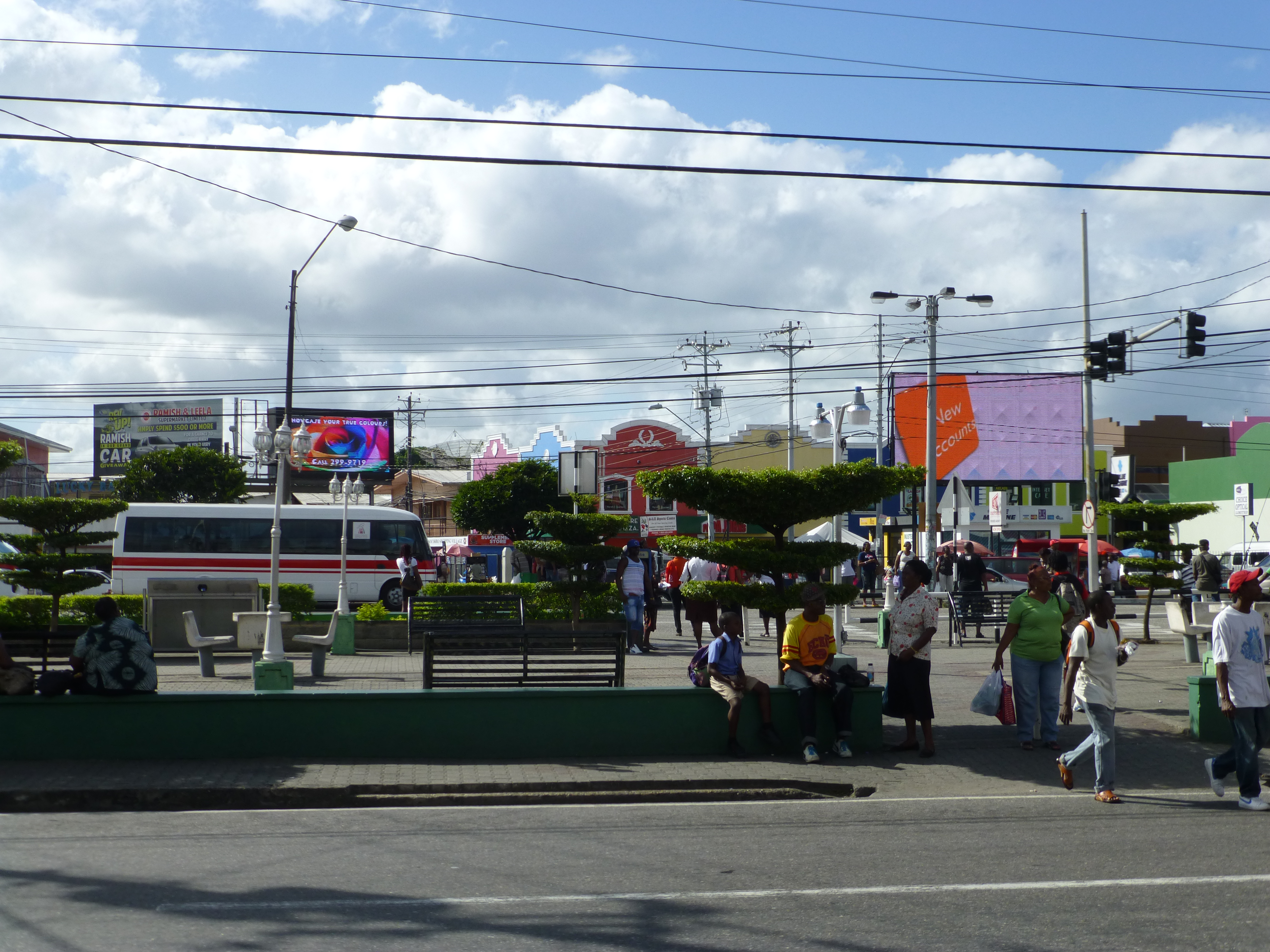 Bus terminal ("croissee"), San Juan, Trinidad.